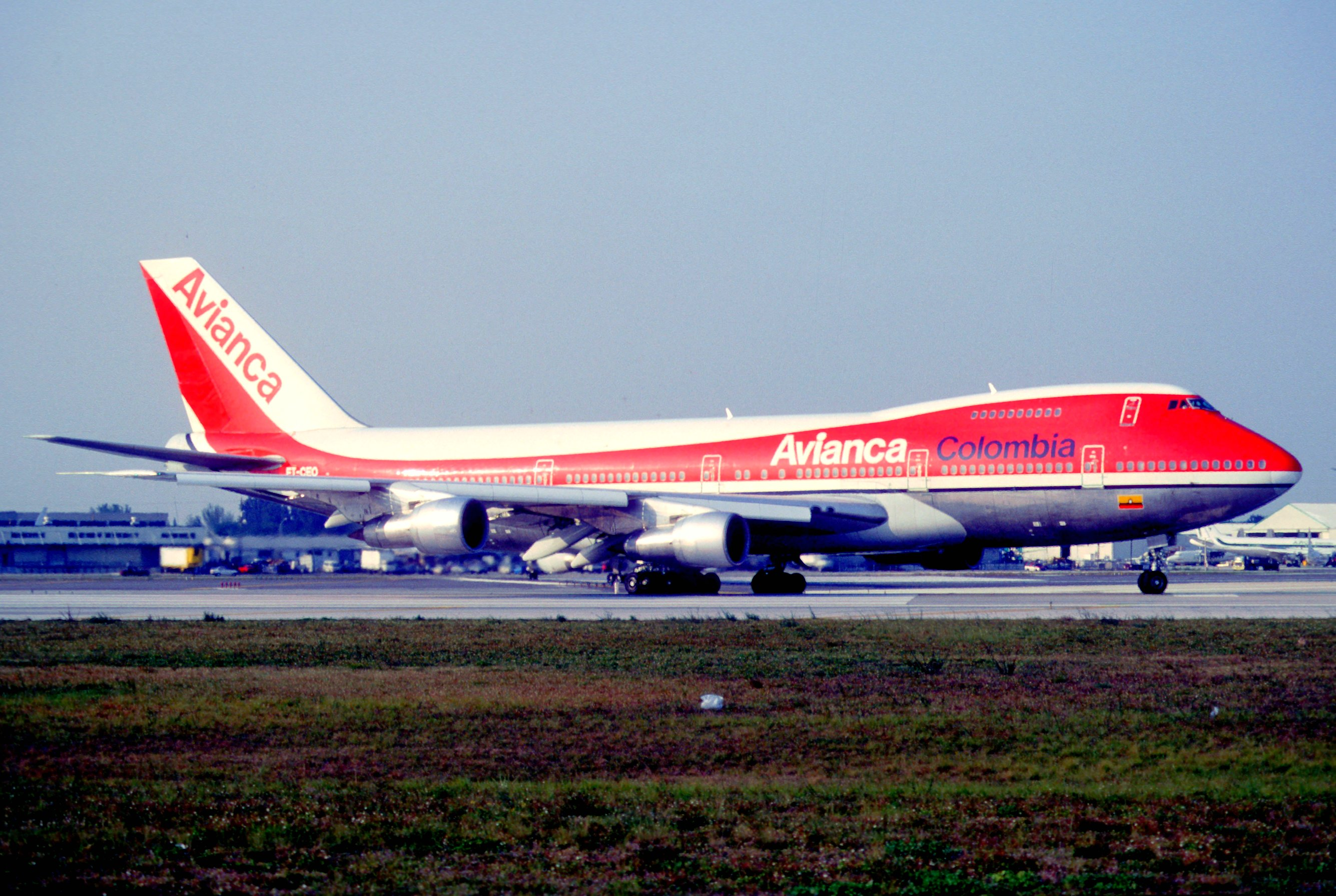 Avianca Boeing 747-259B (M); EI-CEO@MIA, June 1993